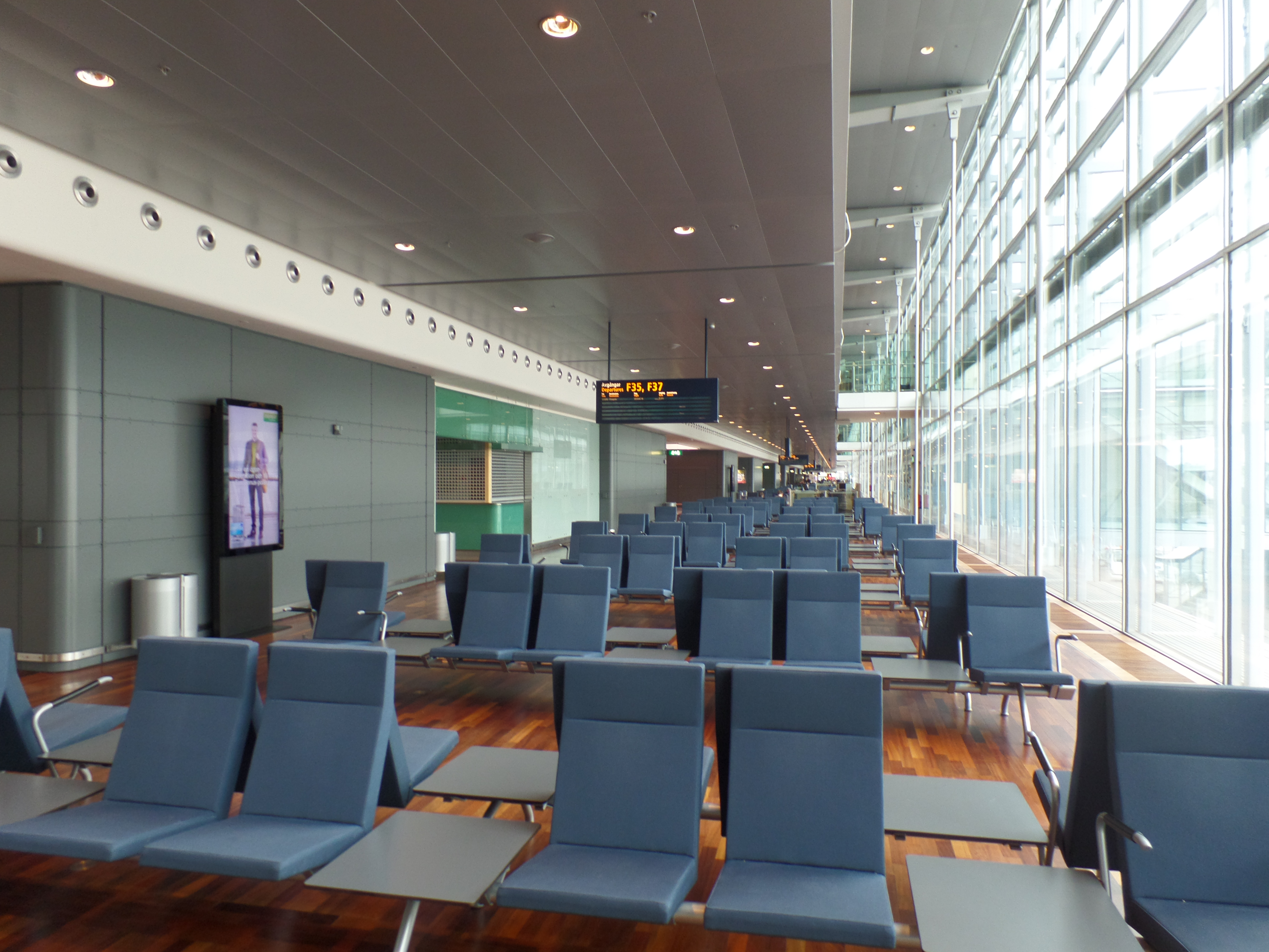 Stockholm-Arlanda Airport Terminal 5 inside on May 1, 2015.